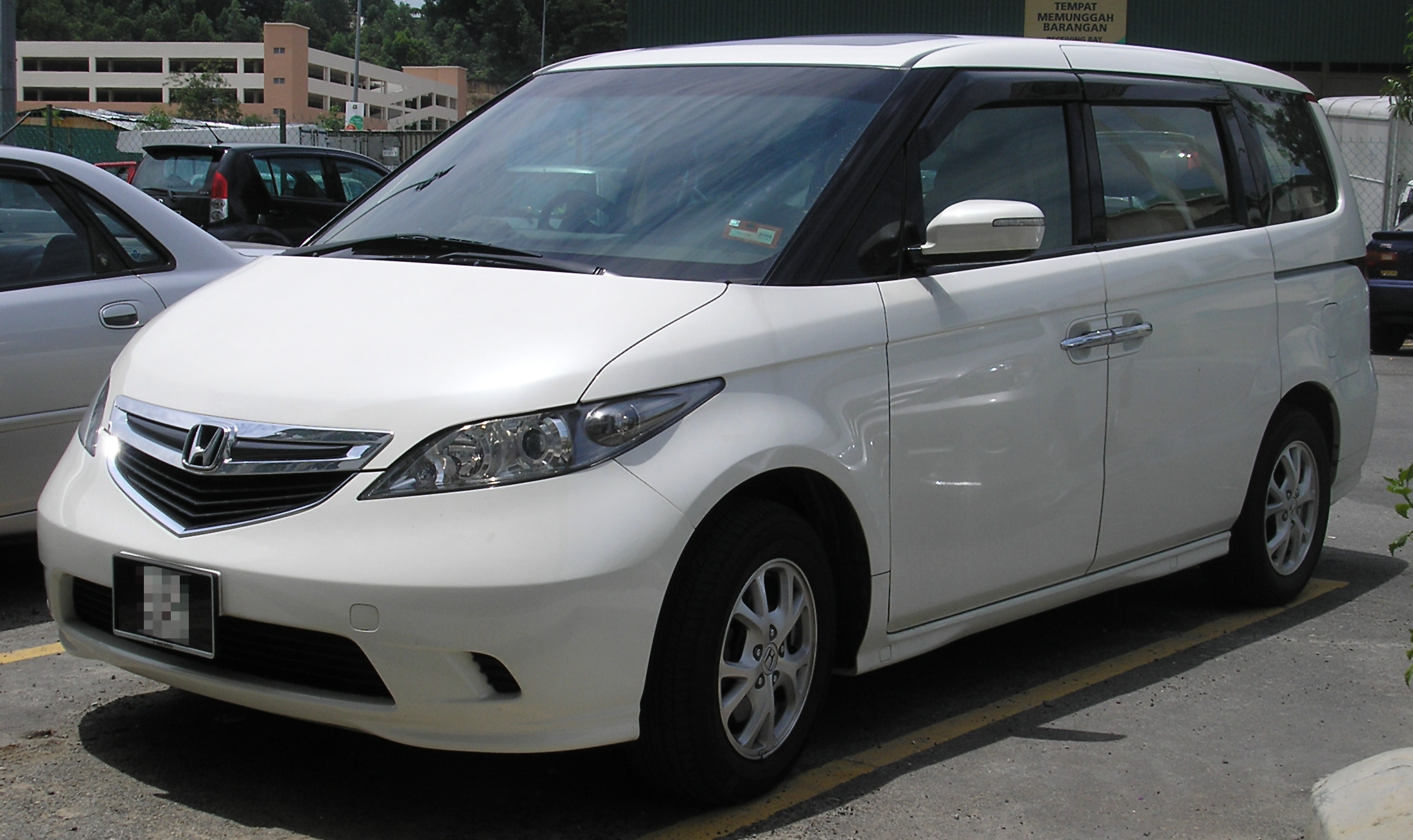 Front quarter view of a first generation Honda Elysion in Serdang, Selangor, Malaysia.